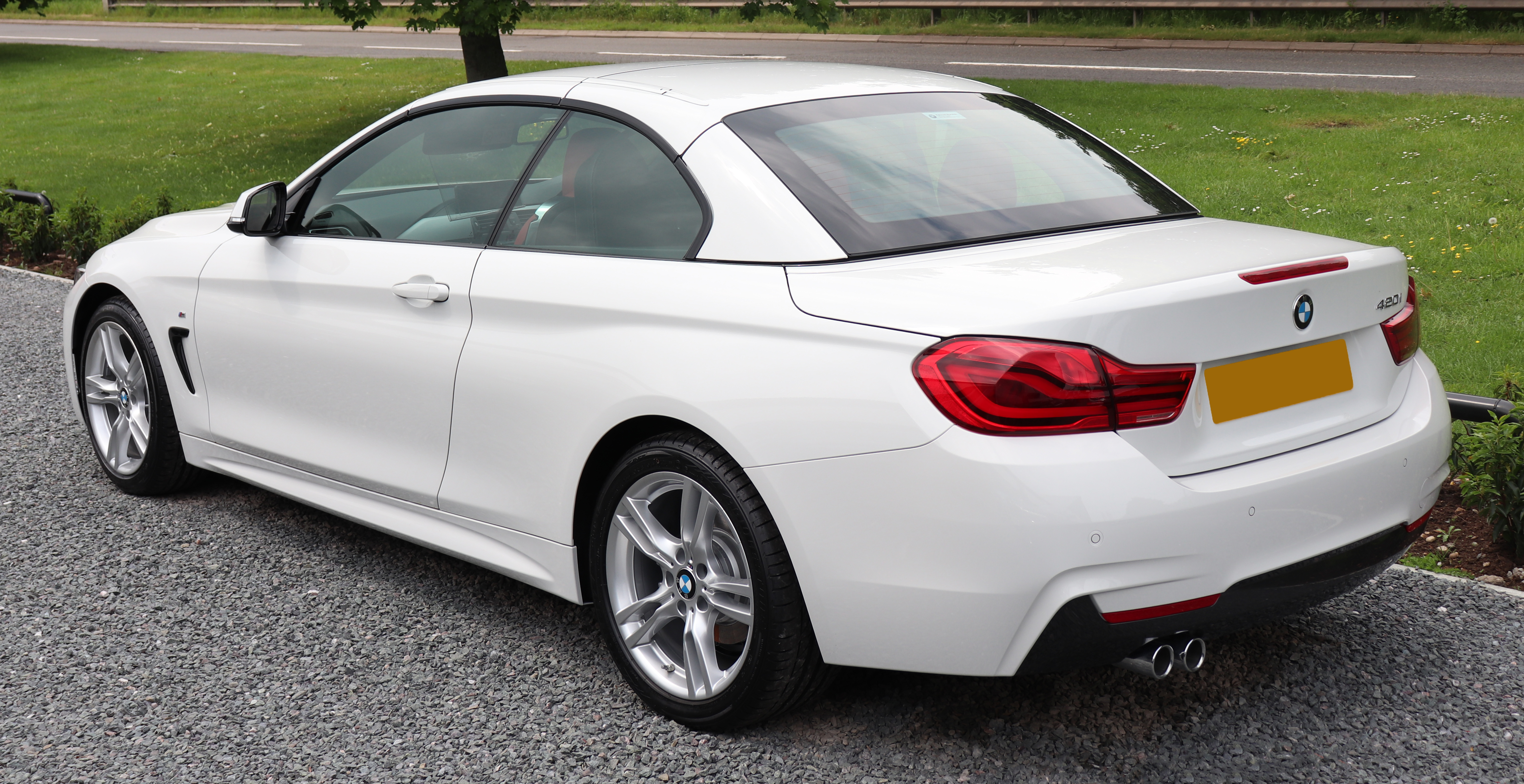 2018 BMW 420i M Sport Automatic 2.0 Rear Taken in Rybrook BMW Warwick